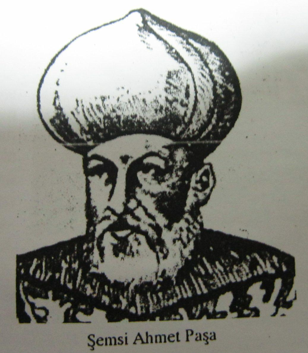 an old picture for vizir shemsi pasha